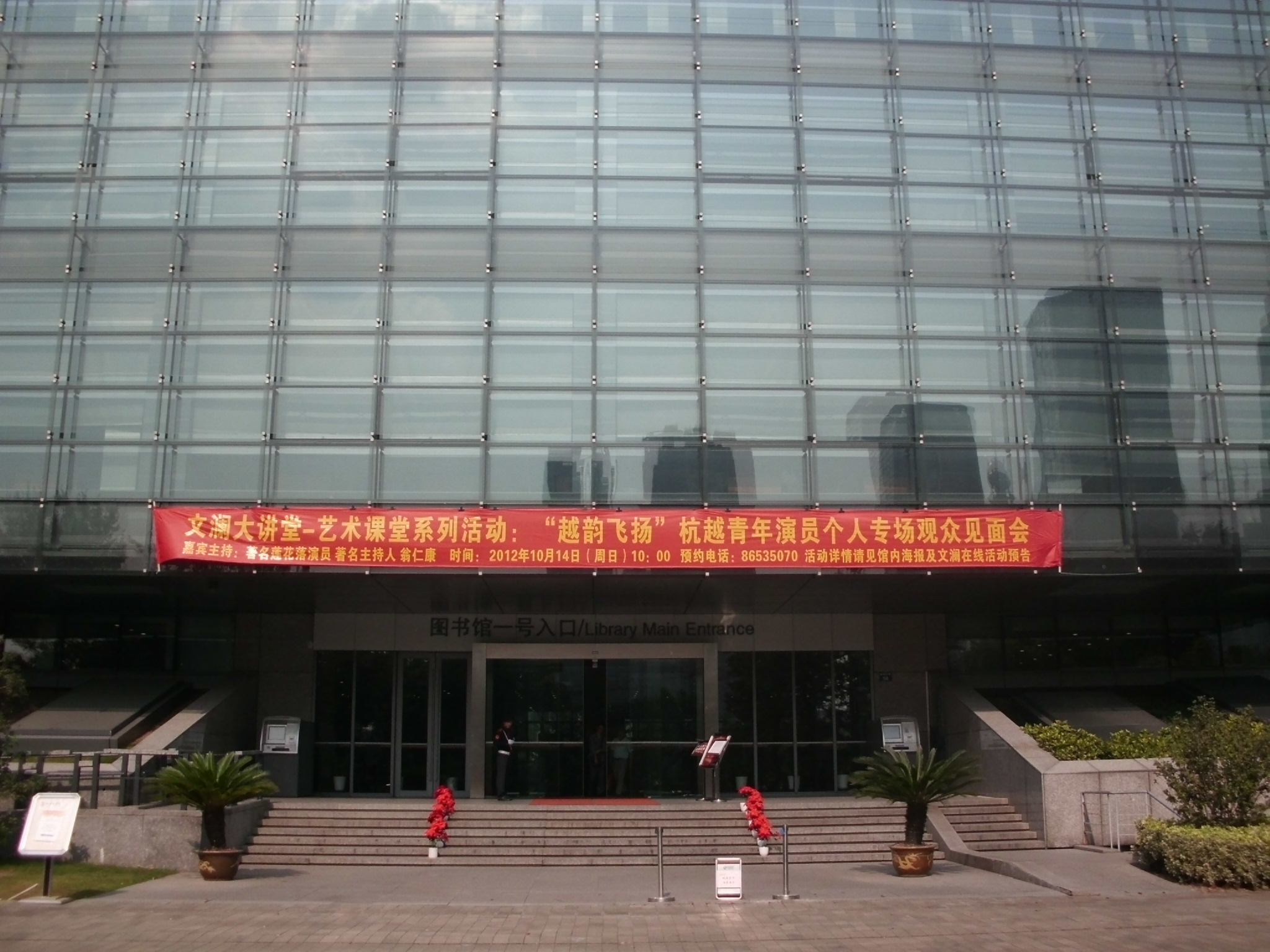 Hangzhou Library main entrance